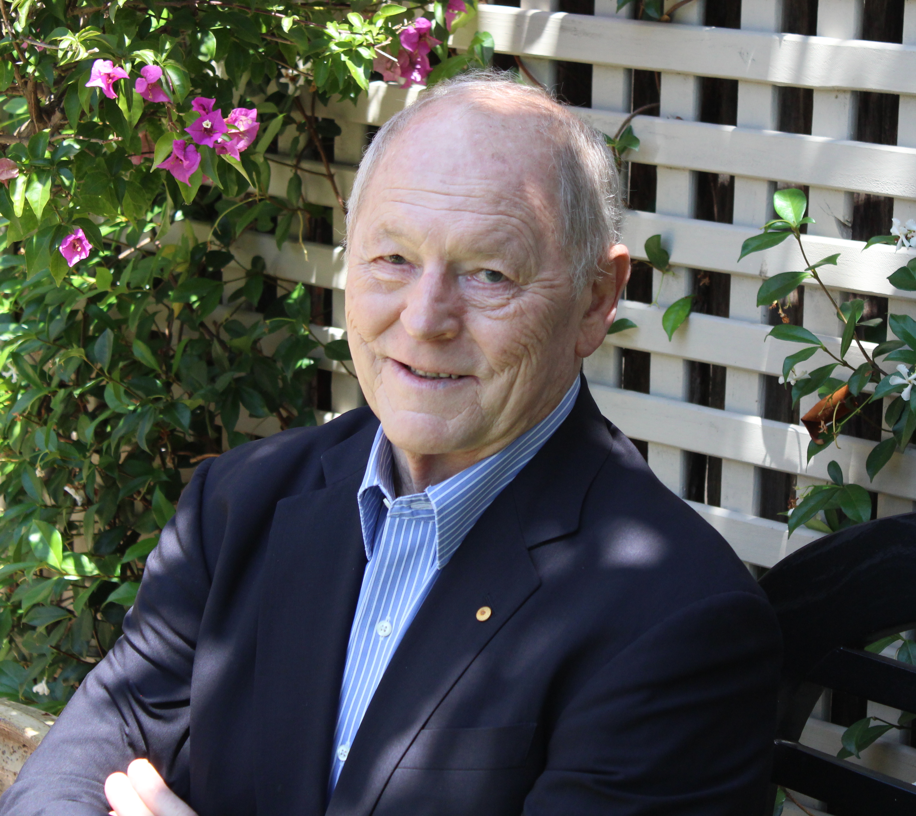 John Niland in the garden of his Sydney home.